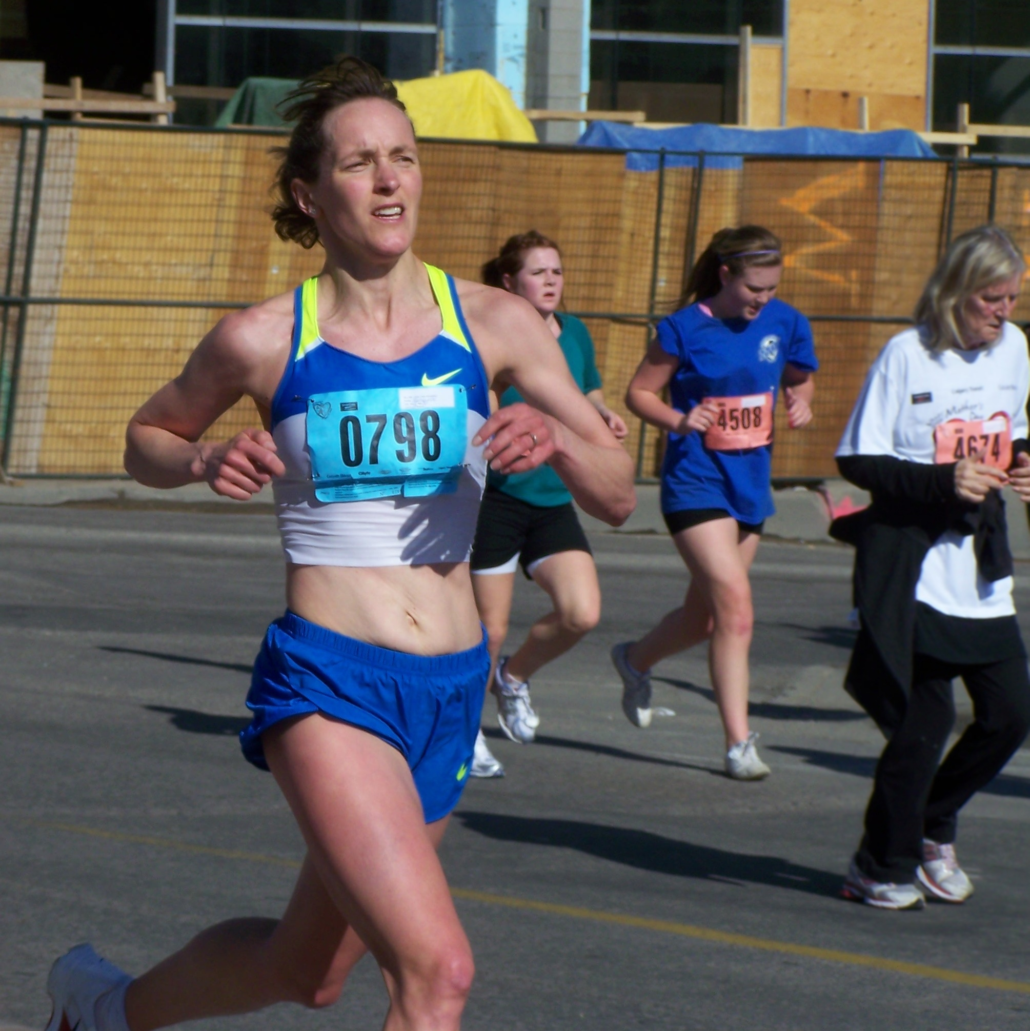 Canadian Olympian Lisa Harvey running the 10K in the Calgary Mother's Day Run And Walk. Wearing blue bib #798, she is heading East along 10 Avenue. She ultimately finished 1st among women, and 13th overall. The other runners in the picture (non-blue bibs) were running the 5K walk/run. This image was cropped from the original.